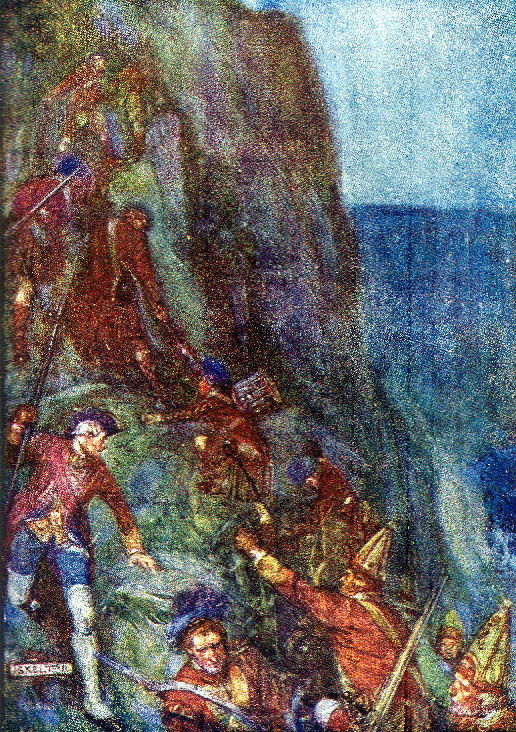 This book provides a vivid and picturesque account of the principal events in the building of the British Empire. It traces the development of the British colonies from the days of discovery and exploration through settlement and establishment of government. Included are stories of the five chief portions of the British Empire: Canada, Australia, New Zealand, South Africa, and India.